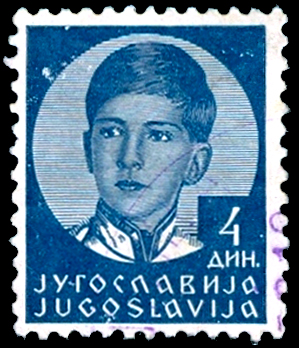 Postage stamp of Yugoslavia, king Peter II, 4 dinara, 1936, scott#126.